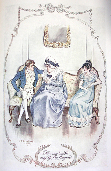 Persuasion ch 8: Anne Elliott and Frederick Wentworth were divided only by Mrs Musgrove